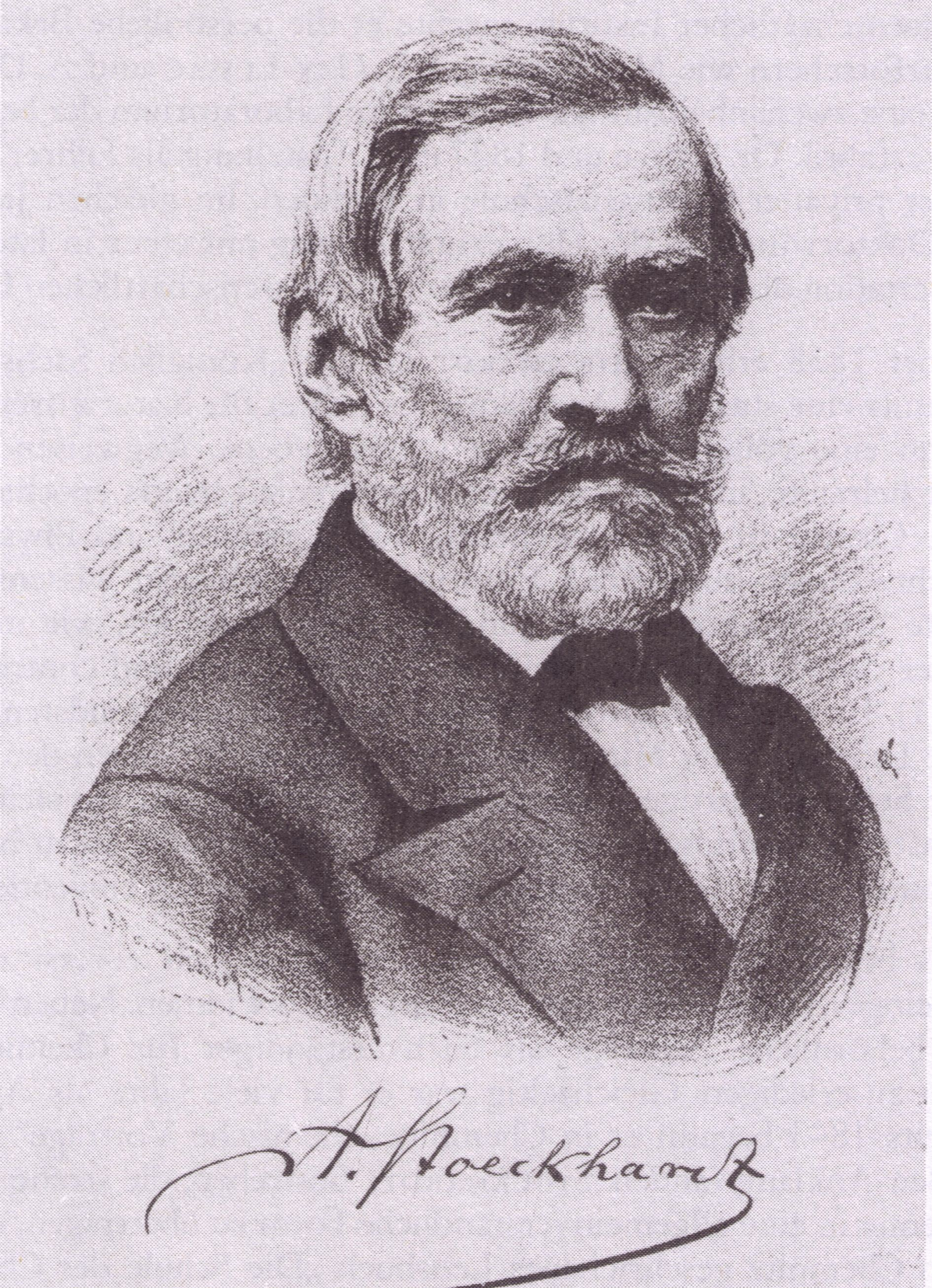 Julius Adolph Stöckhardt, German agricultural scientist